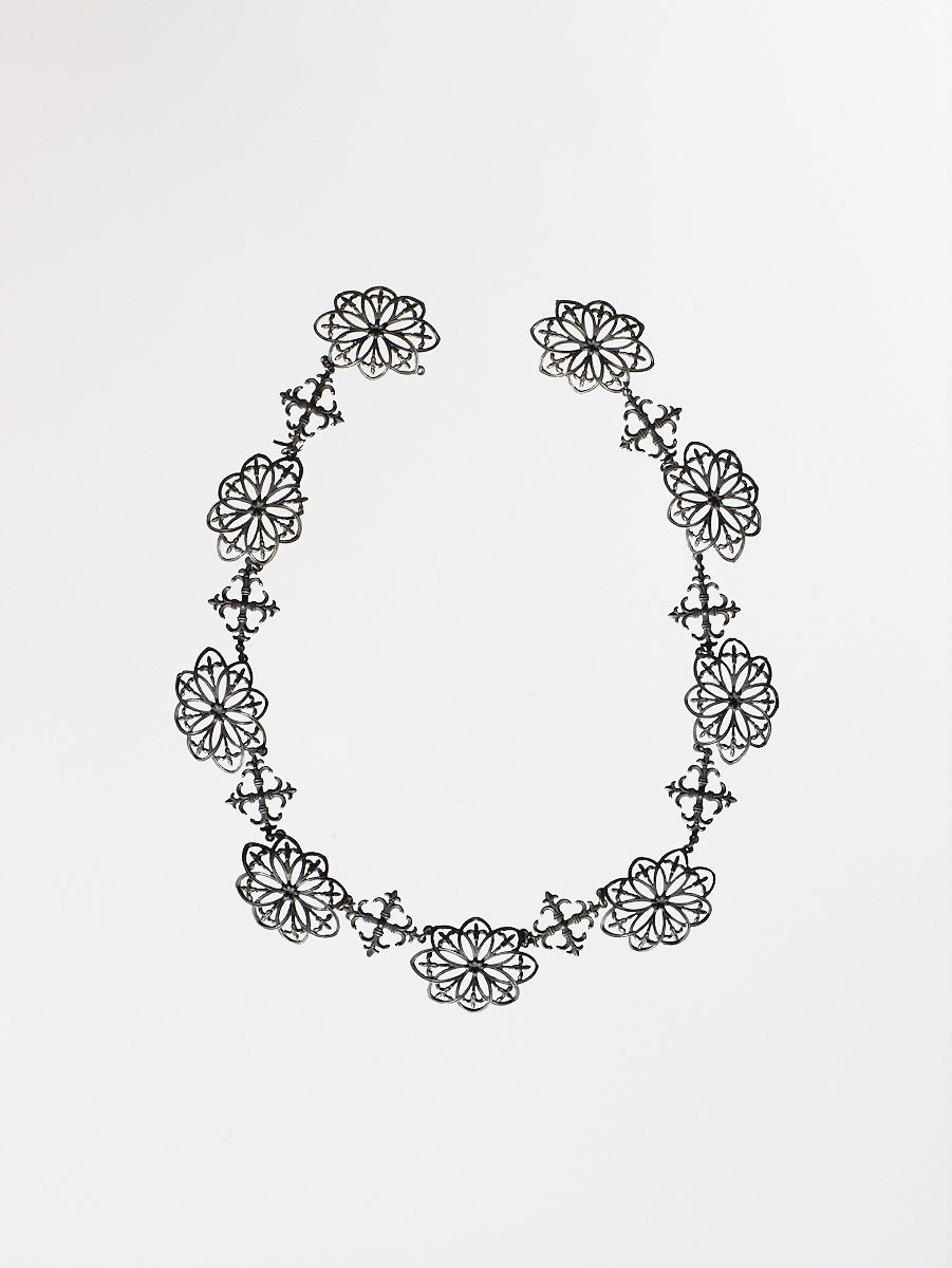 Iron work necklace